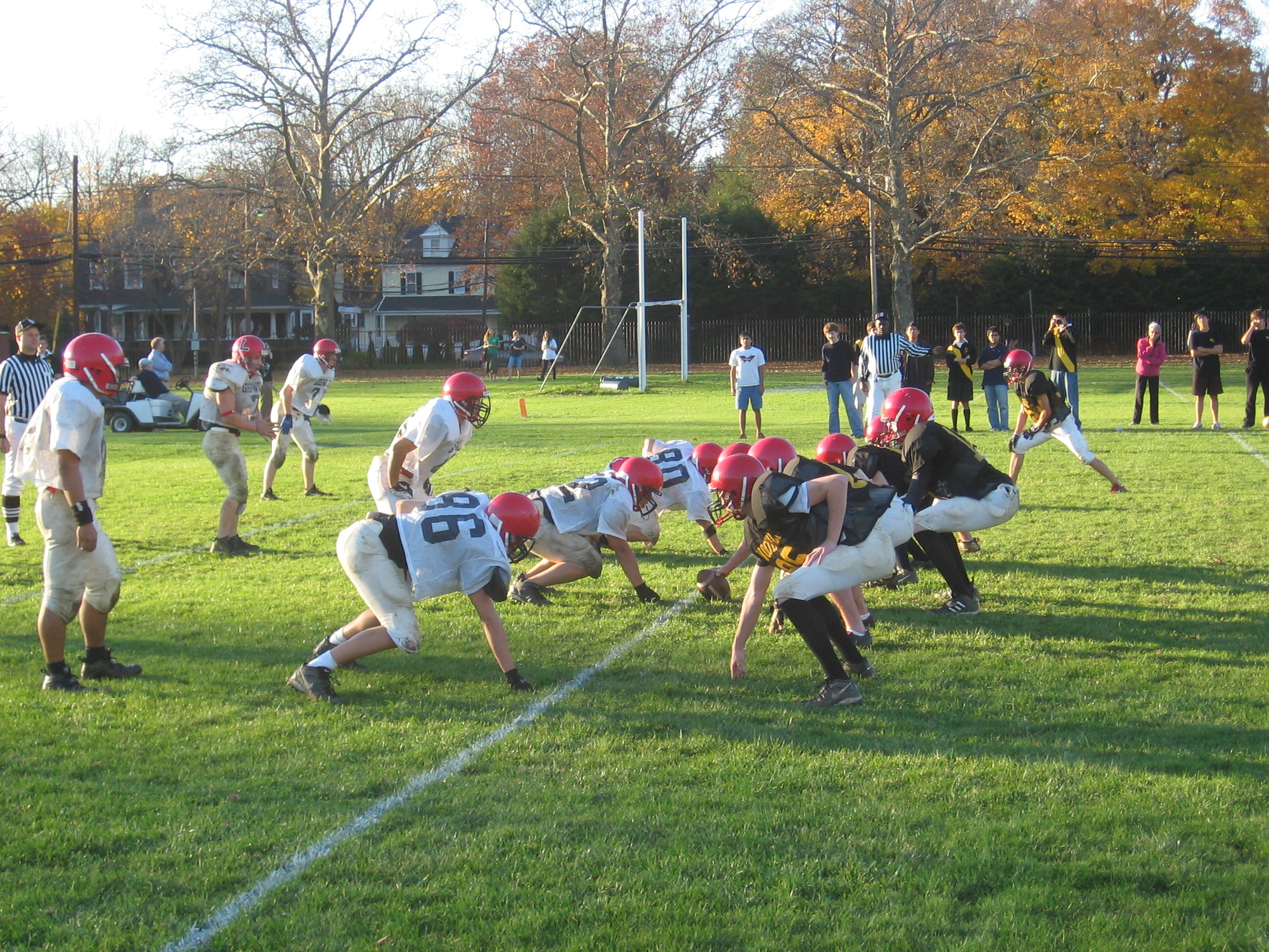 A football game between Griswold and Woodhull in the inter-house league at the Lawrenceville School. Taken by me in Fall 2006.